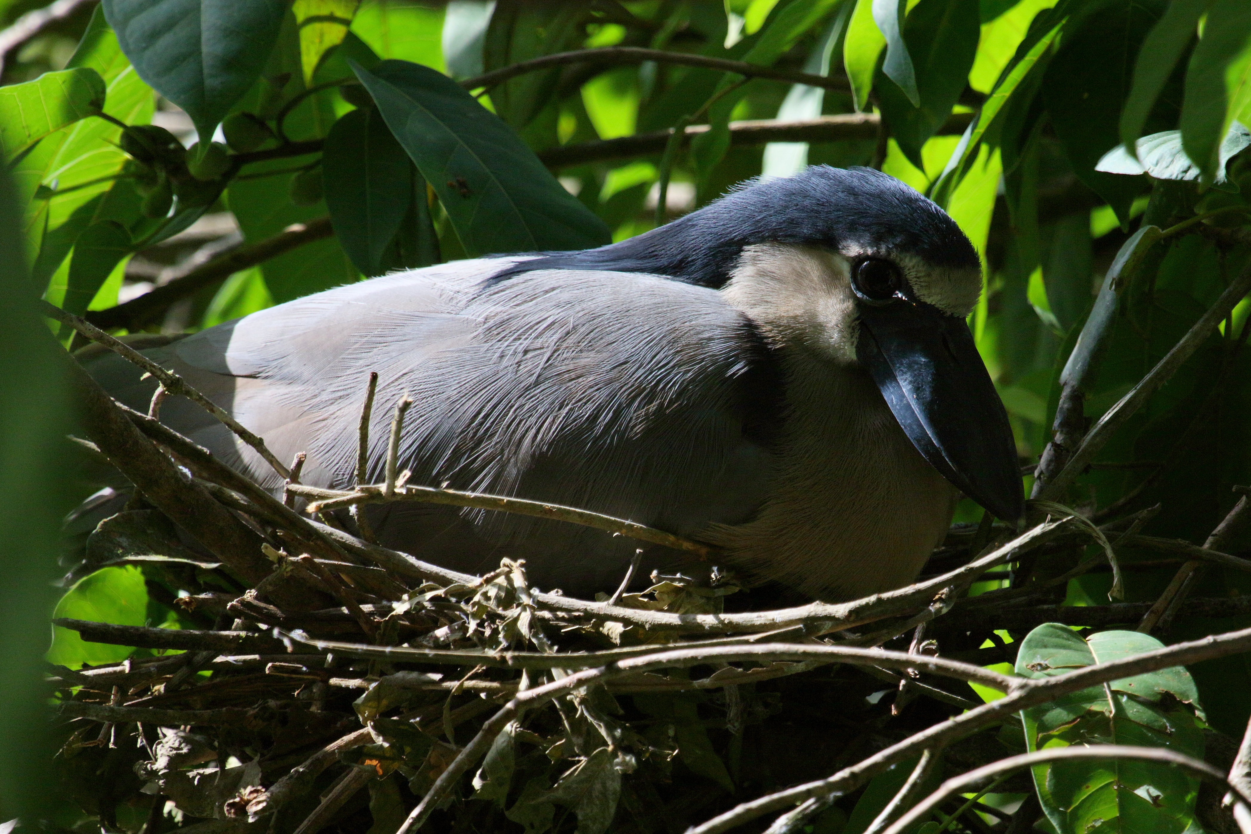 Boat-billed heron, Cockscomb Basin Wildlife Sanctuary, Belize